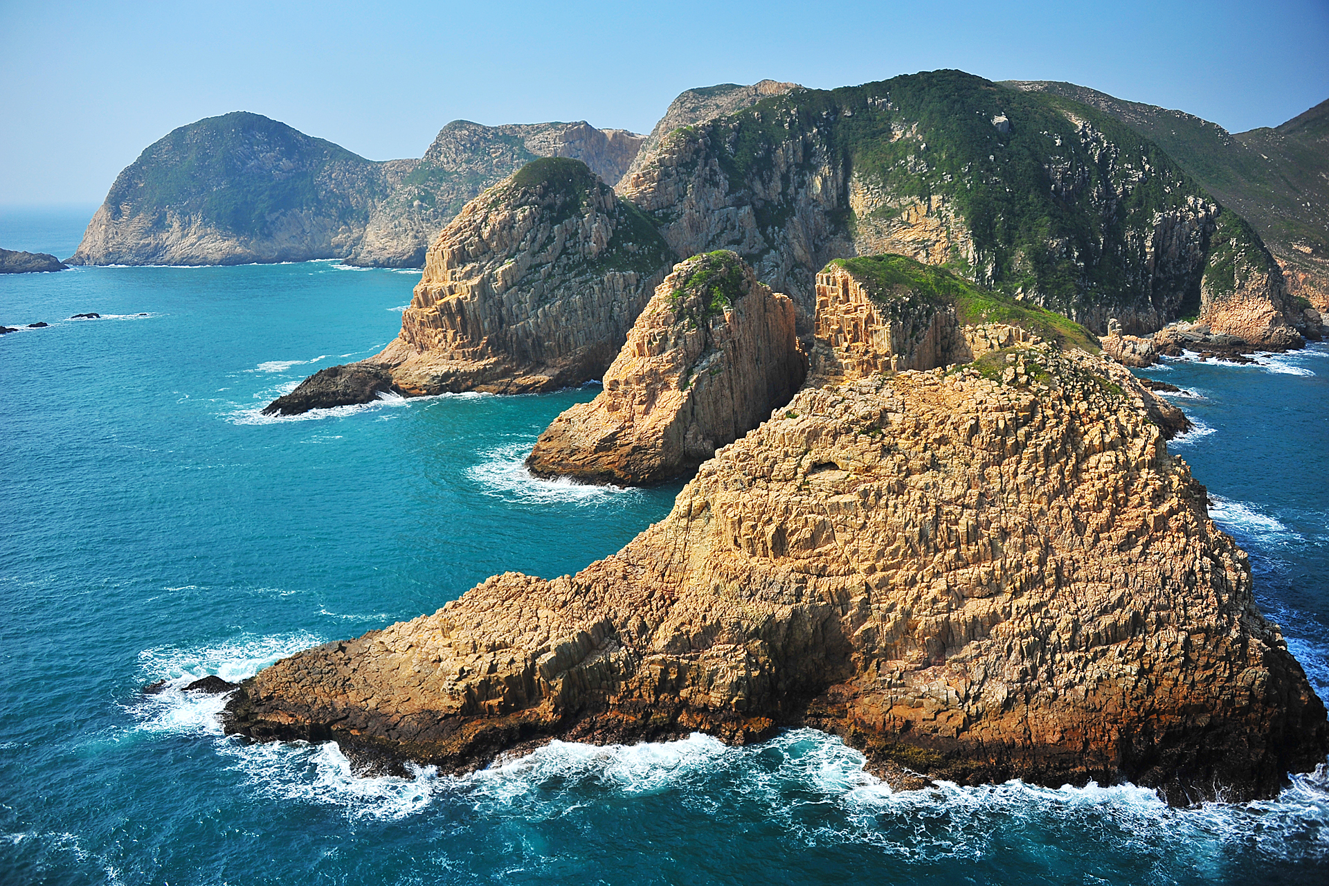 Basalt Island is within the Hong Kong UNESCO Global Geopark.